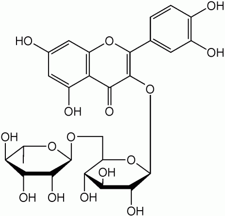 Chemical structure of rutin